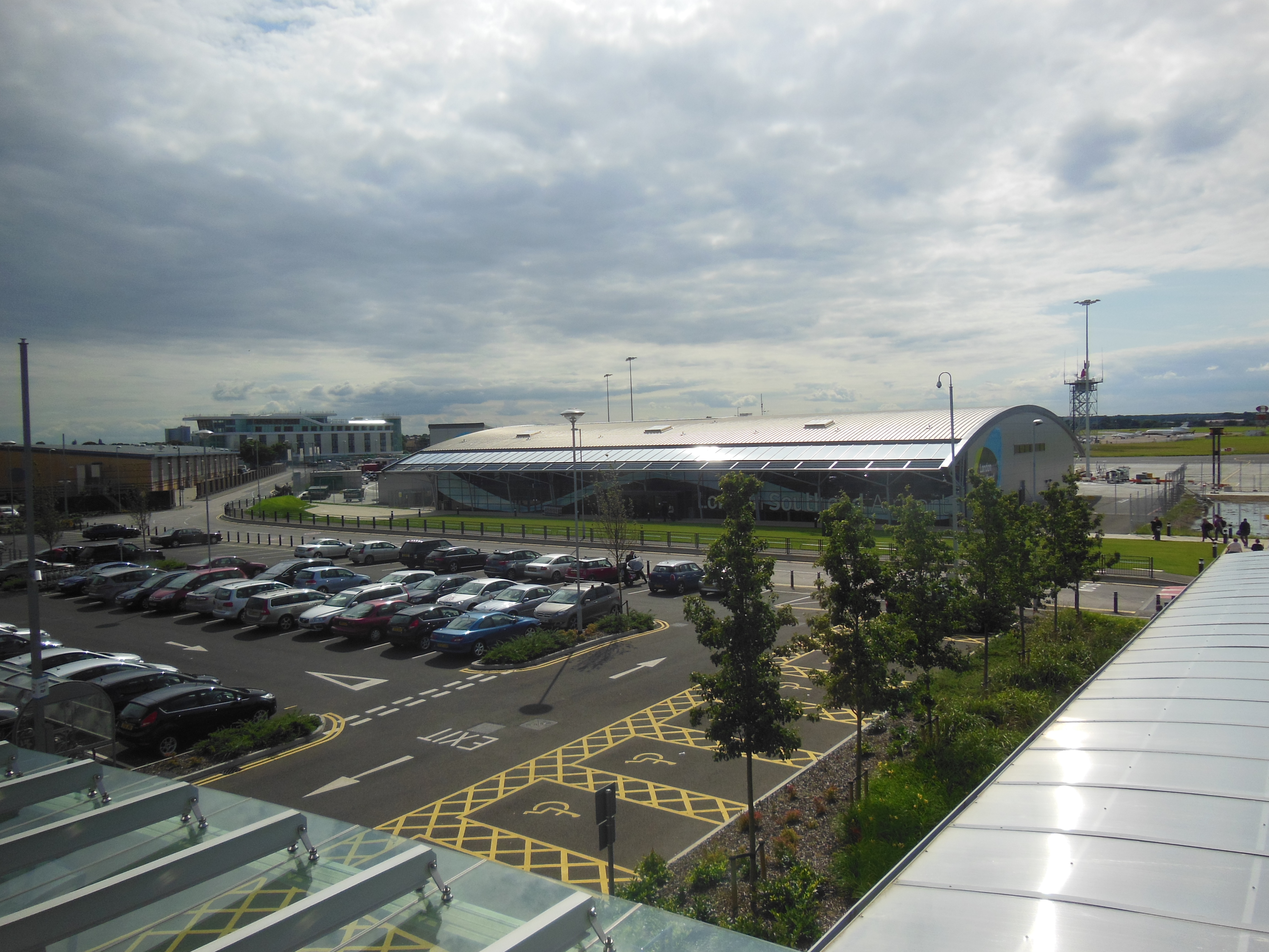 View of Southend Airport terminal building from the bridge at Southend Airport railway station. For more information, see Wikipedia articles Southend Airport and Southend Airport railway station.